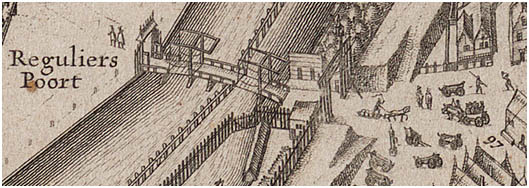 Detail from the second print of Balthasar Florisz. van Berckenrode's map of Amsterdam, originally published in 1625.